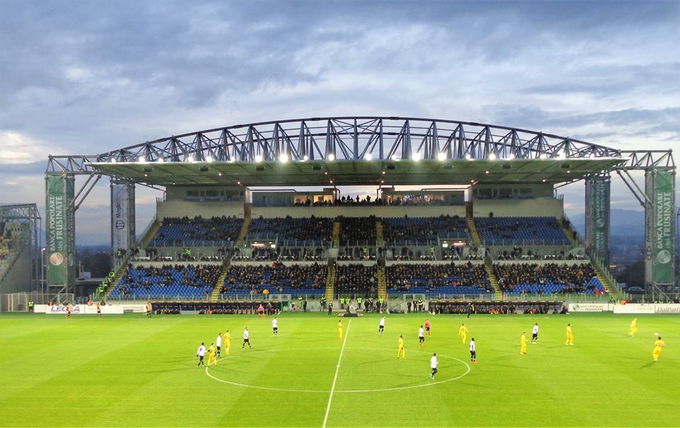 Benito Stirpe Stadium, Main Stand and floodlights